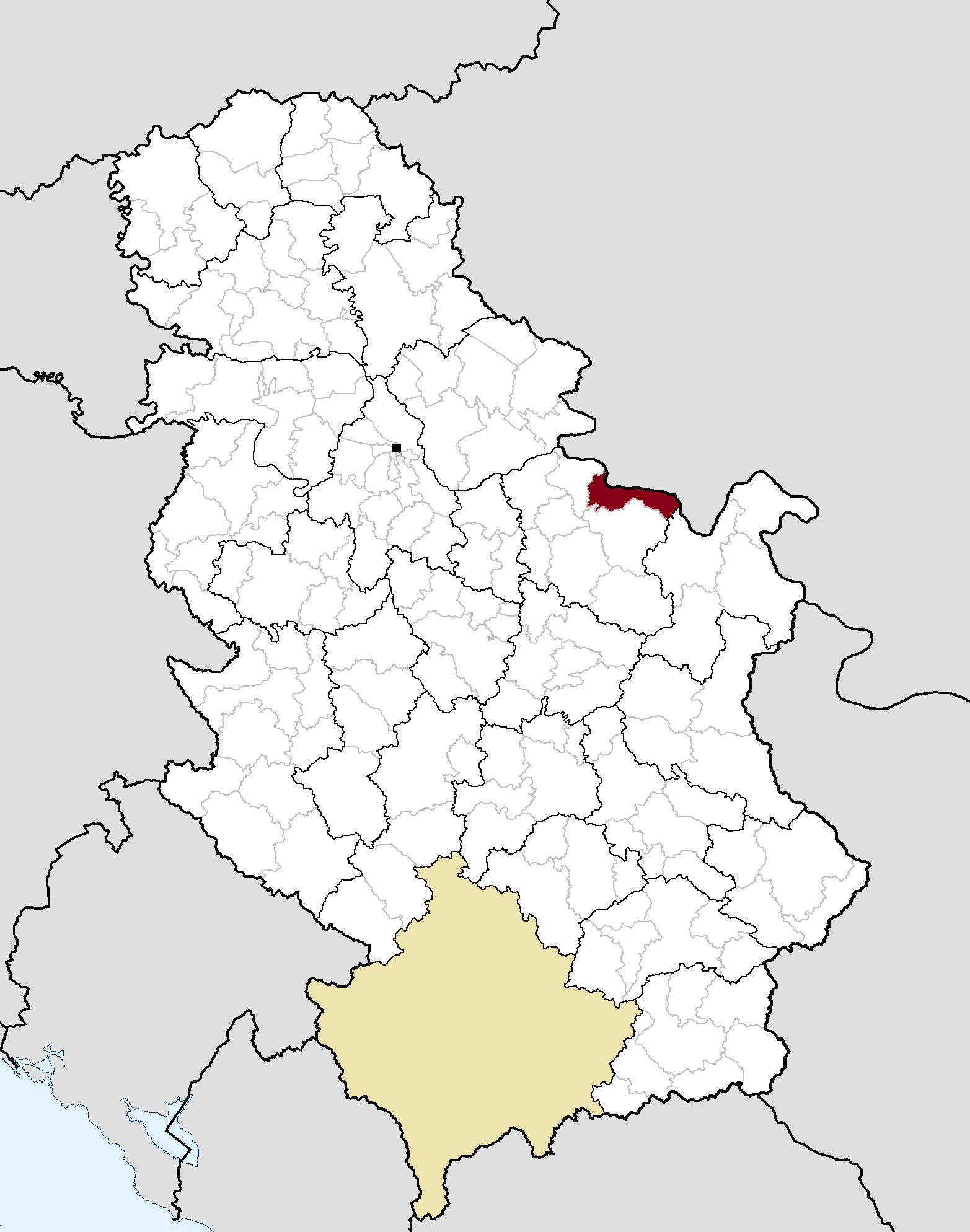 Municipal location in Serbia